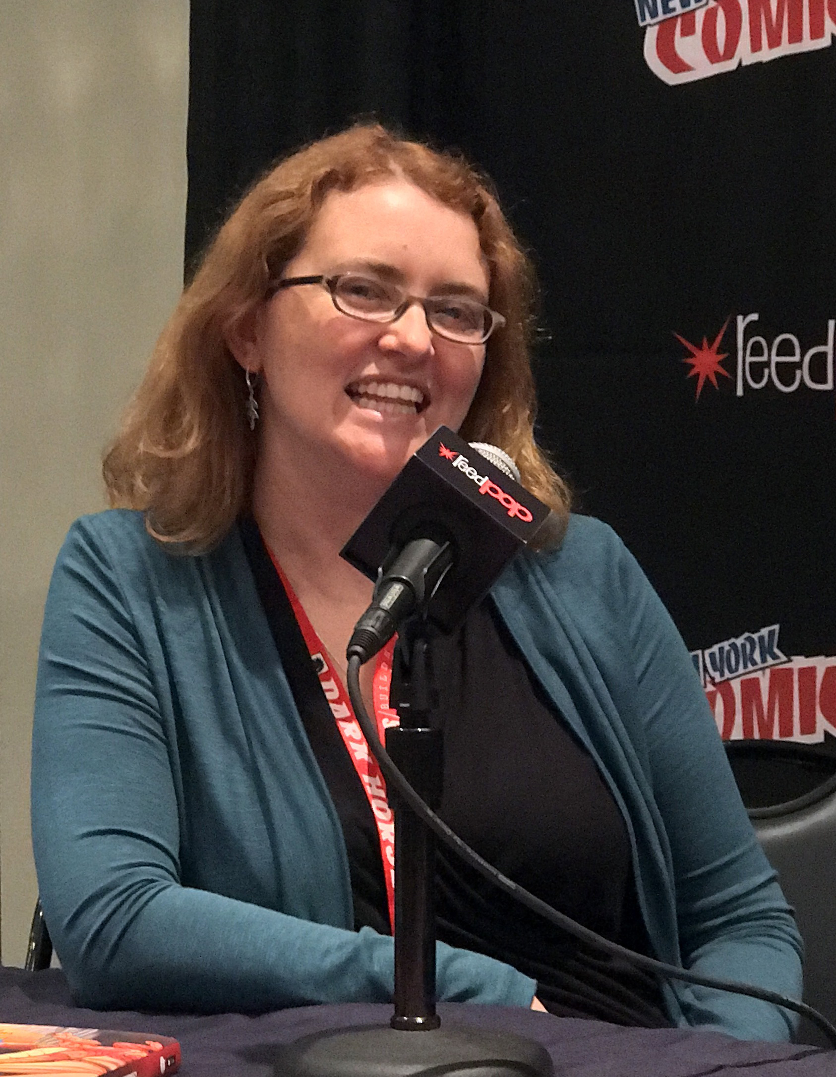 Children's book author Tui T. Sutherland at a panel discussion on Thursday, October 5, 2017 at the Jacob K. Javits Convention Center in Manhattan, Day 1 of the 2017 New York Comic Con. This photo was created by Luigi Novi. It is not in the public domain, and use of this file outside of the licensing terms is a copyright violation.